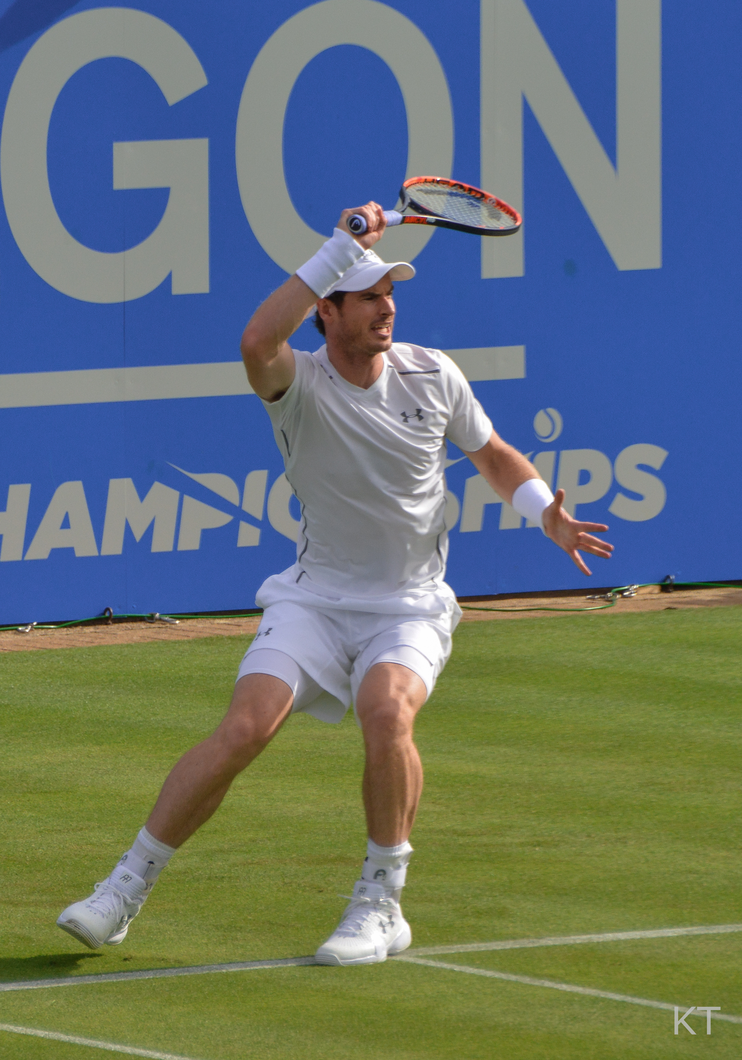 In action against Nicolas Mahut. Aegon Championships, Queen's Club, June 2016.